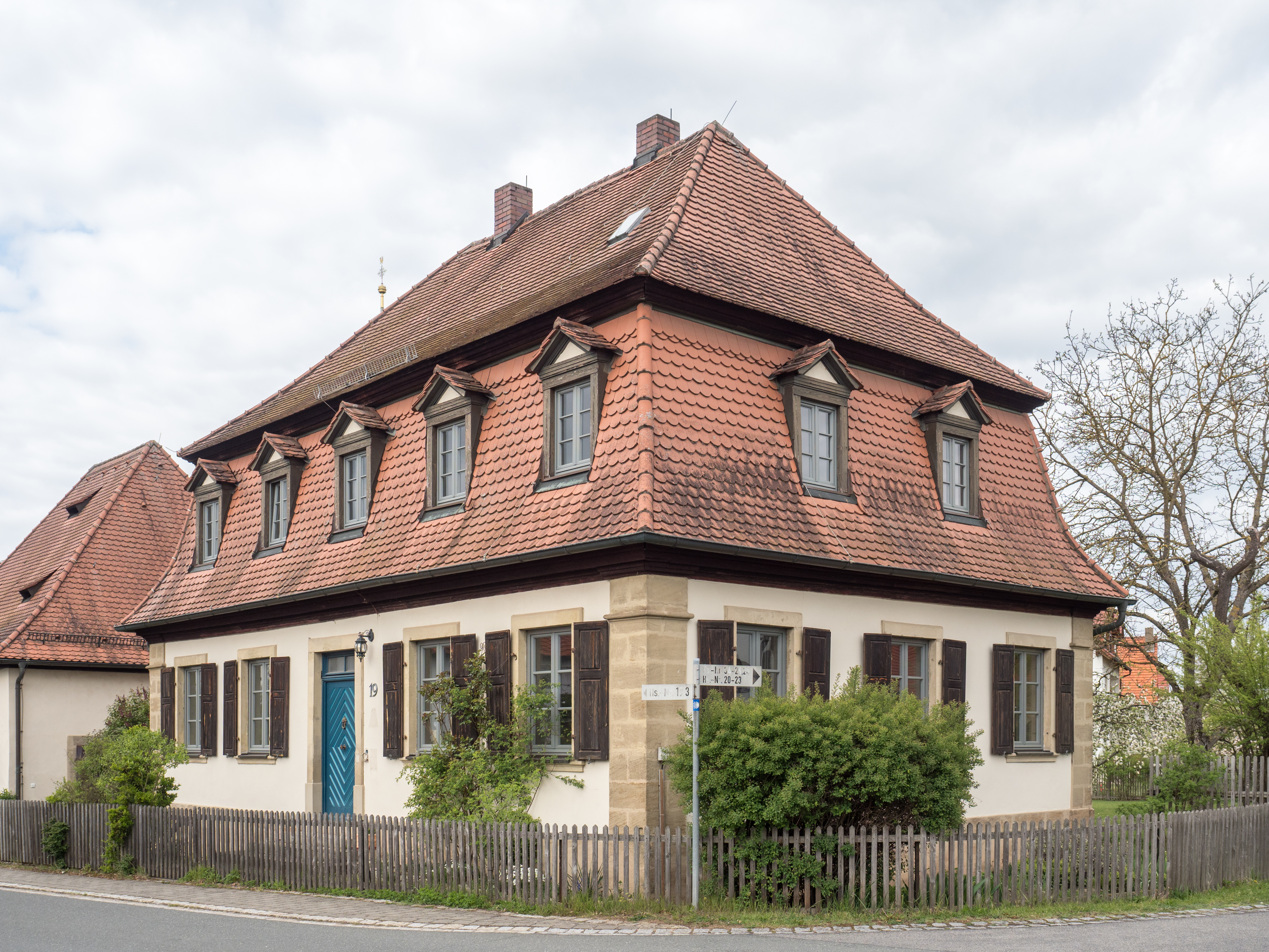 Former forestry service in Schlüsselau